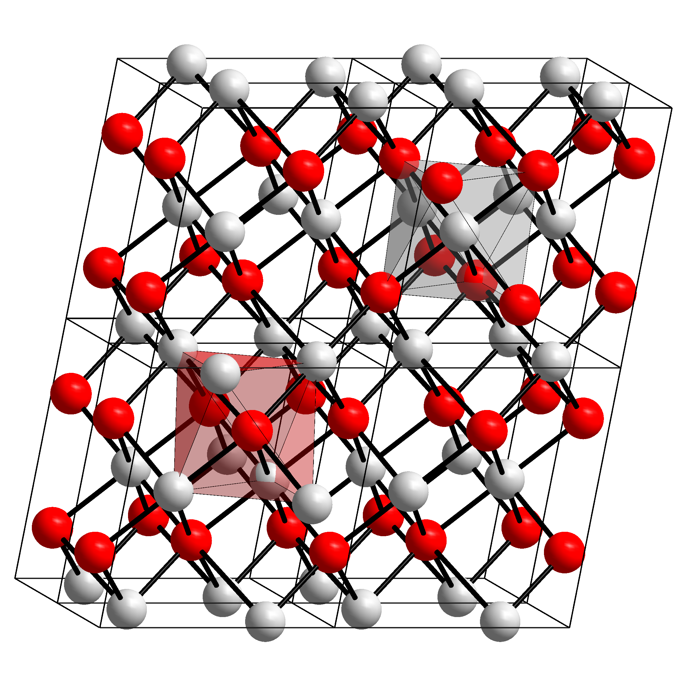 Crystal structure of Copper(II) oxide